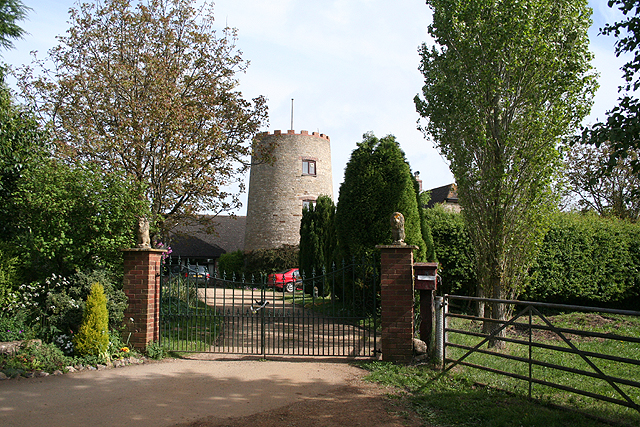 Former windmill, Sulgrave, Northamptonshire; now a private house